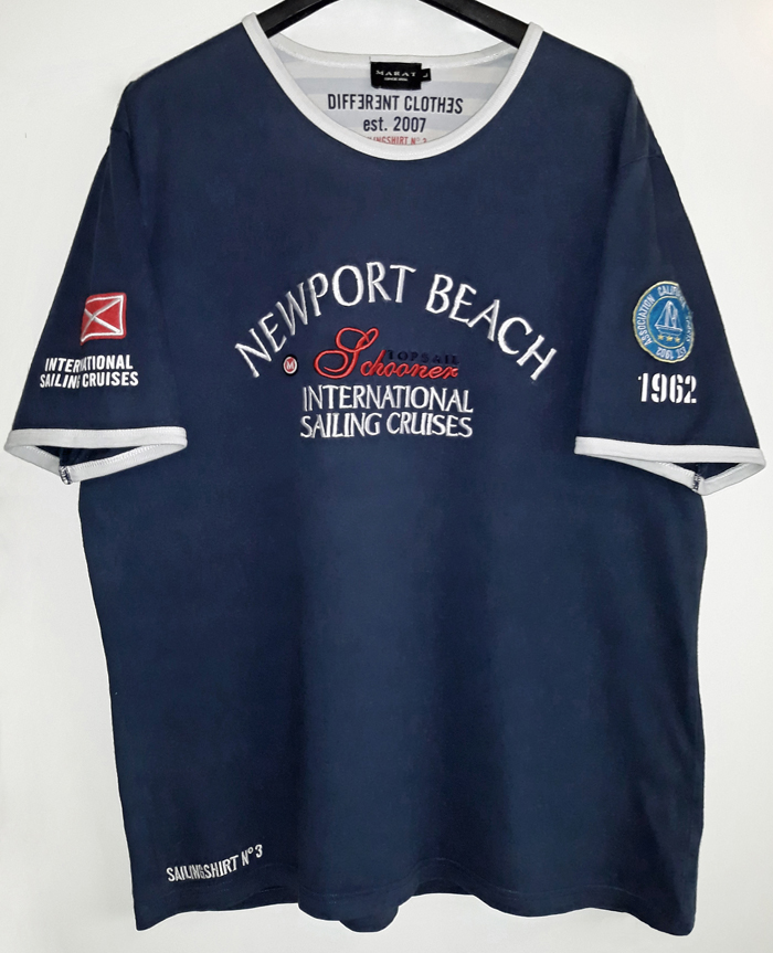 T-shirt, company MARAT (Estonia), produced in 2008